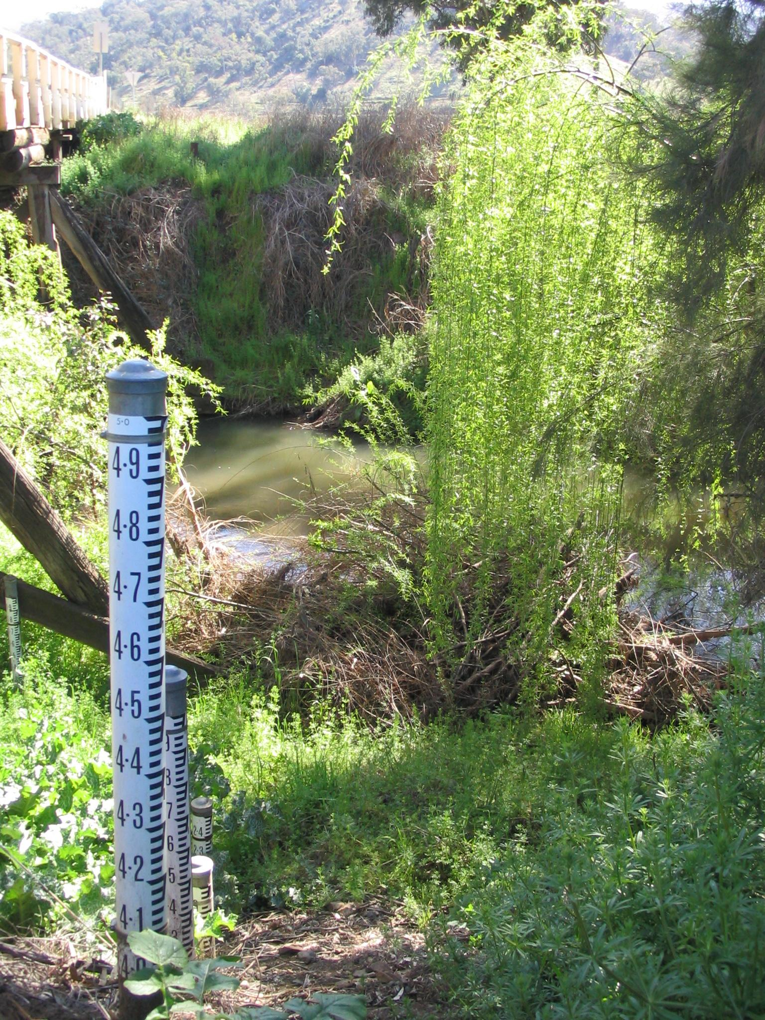 Peel River at Piallamore Bridge, NSW, Australia (a tributary of Namoi River). Photo shows stream gauge (water level indicator).